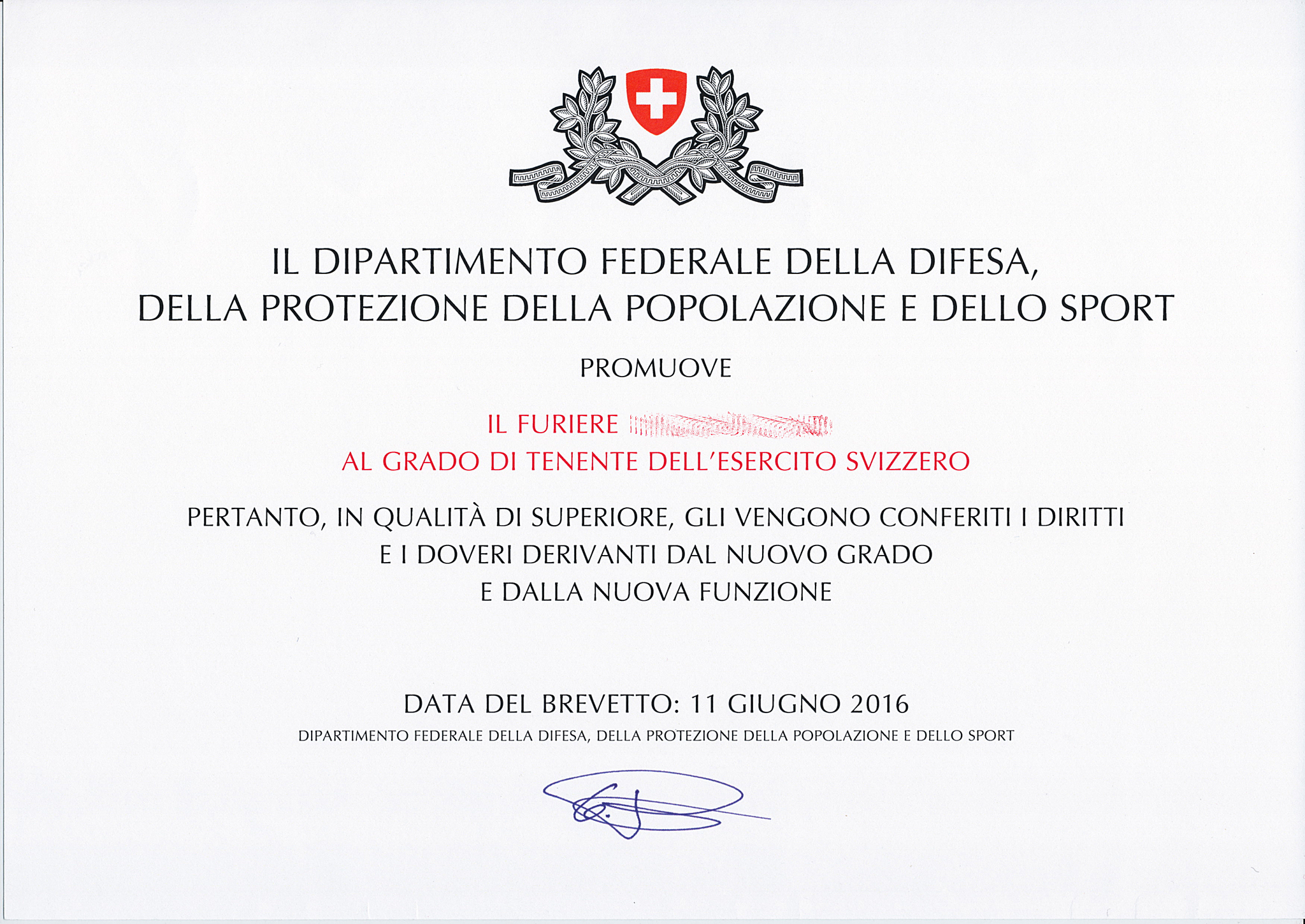 Swiss officer commission.